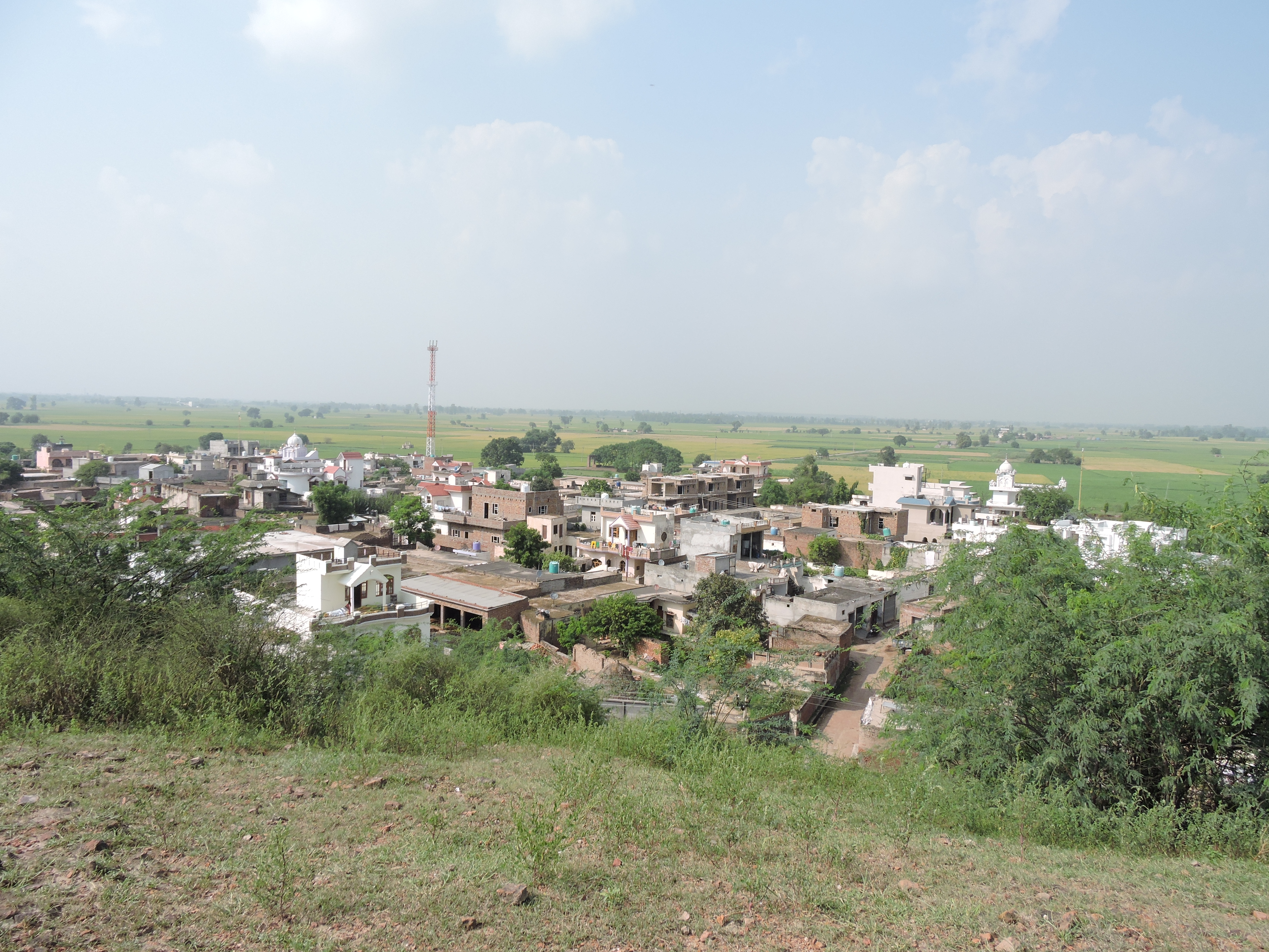 Historical village,Gharram,Patiala,Punjab,india